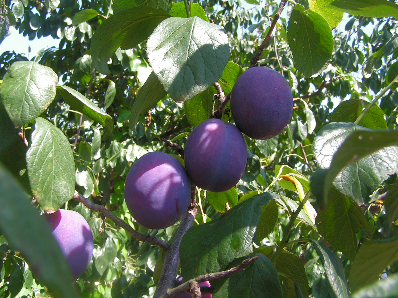 Fruits of Prunus domestica